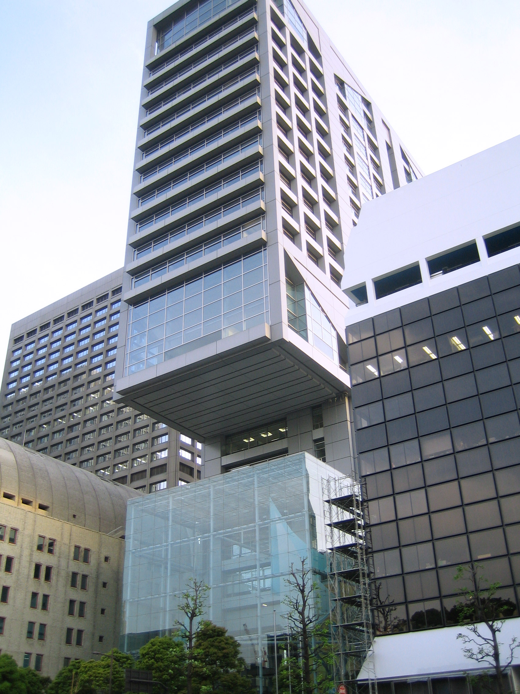 Former Shinsei Bank headquarters building (新生銀行旧本社ビル), Chiyoda, Tokyo, Japan